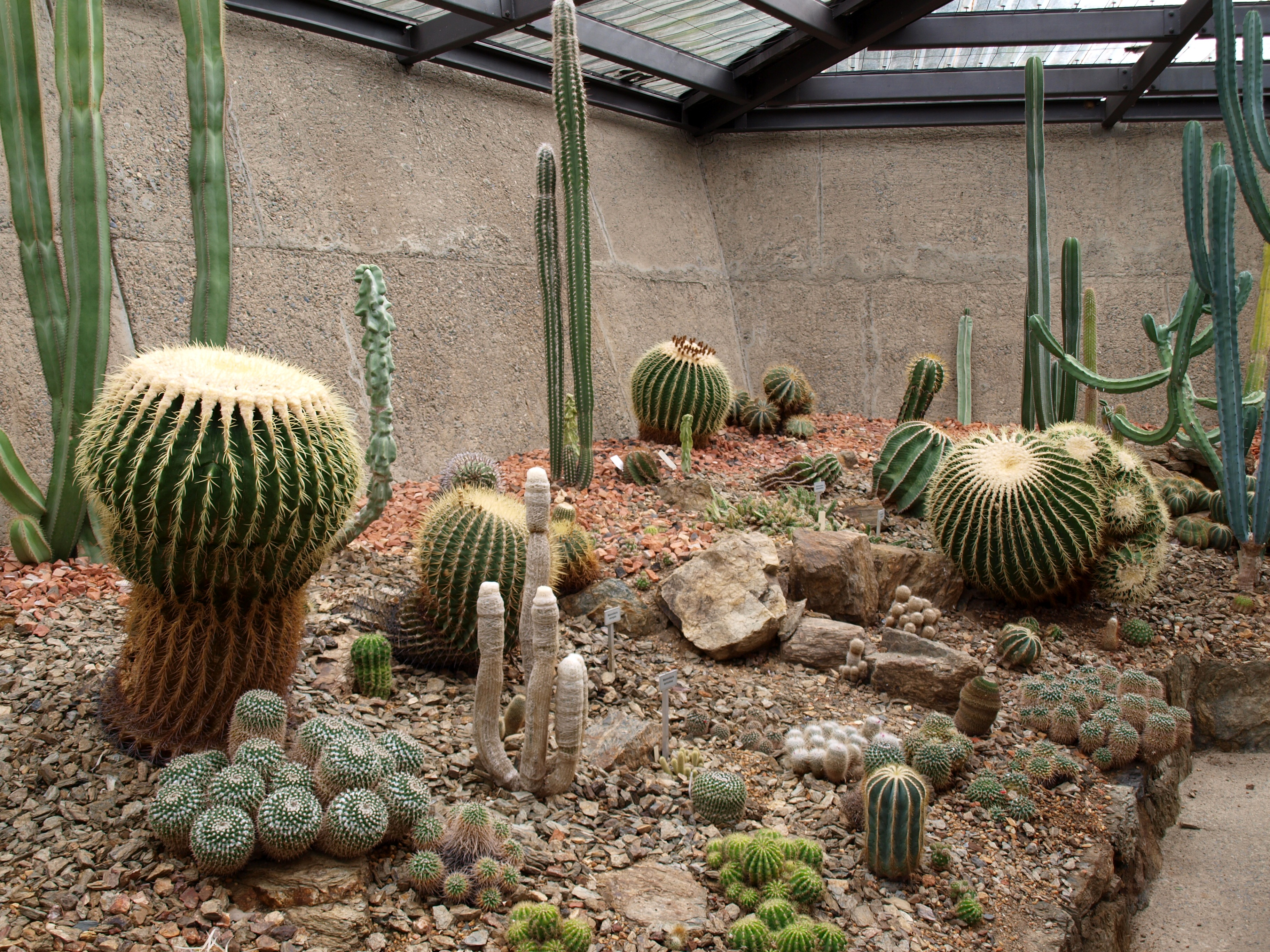 Brisbane Botanic Gardens, Mount Coot-tha